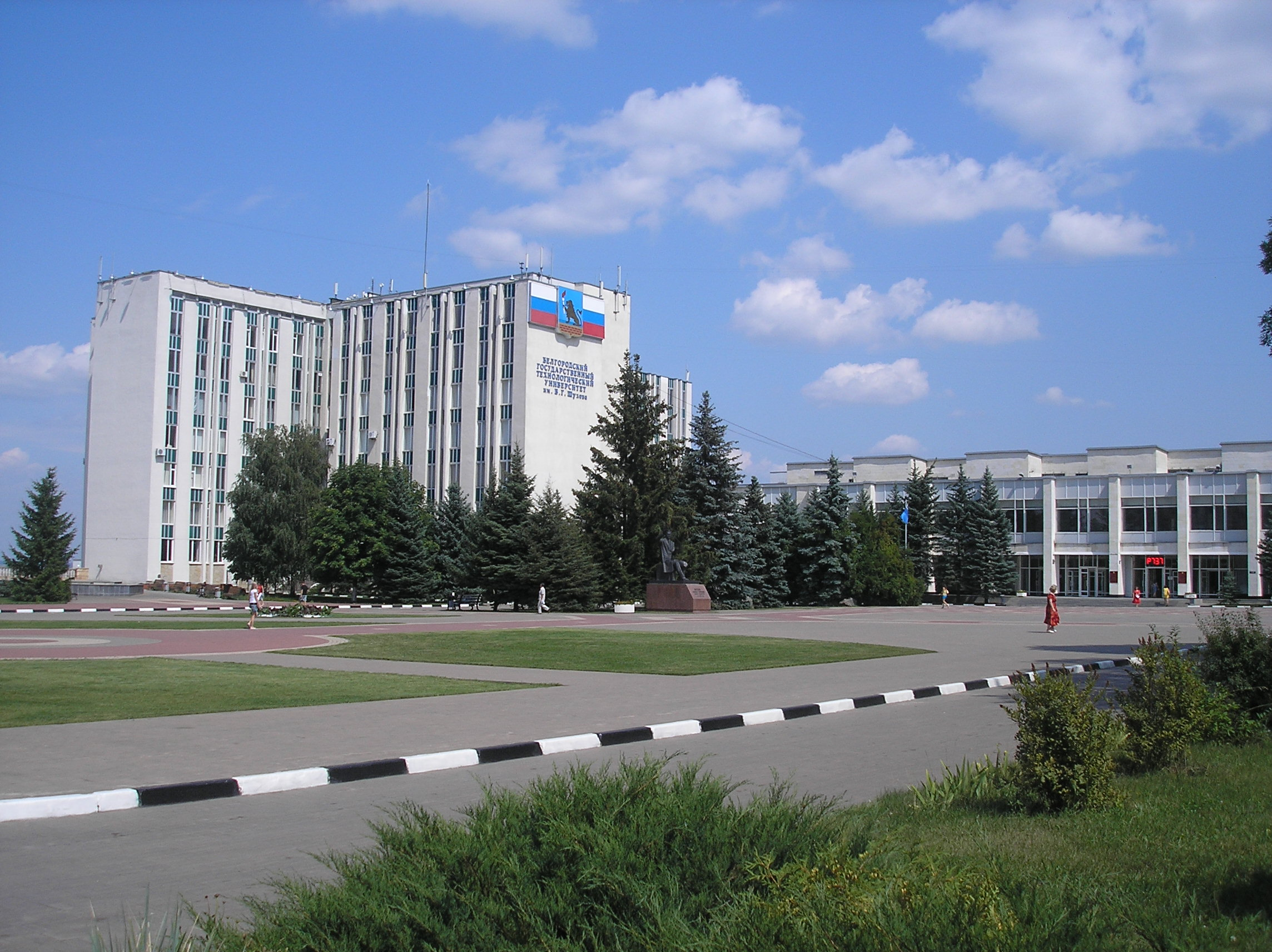 Здание Главного корпуса БГТУ им. В.Г. Шухова